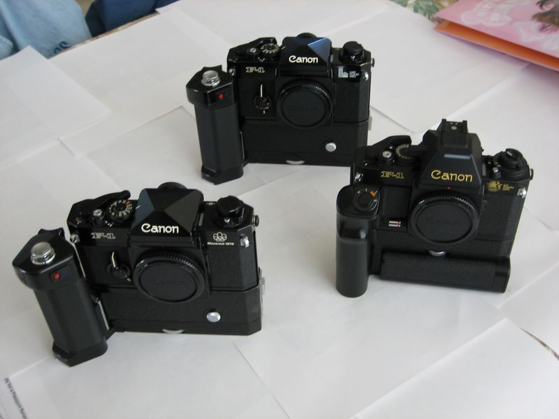 I actually resorted to using a digital Canon Powershot ELPH SD400 to take this photo of my three Olympic Edition Canon F-1 cameras. Actually, I have more olympic F-1s but there are my three best examples. Regards, Lt Col Michael A. Santos.